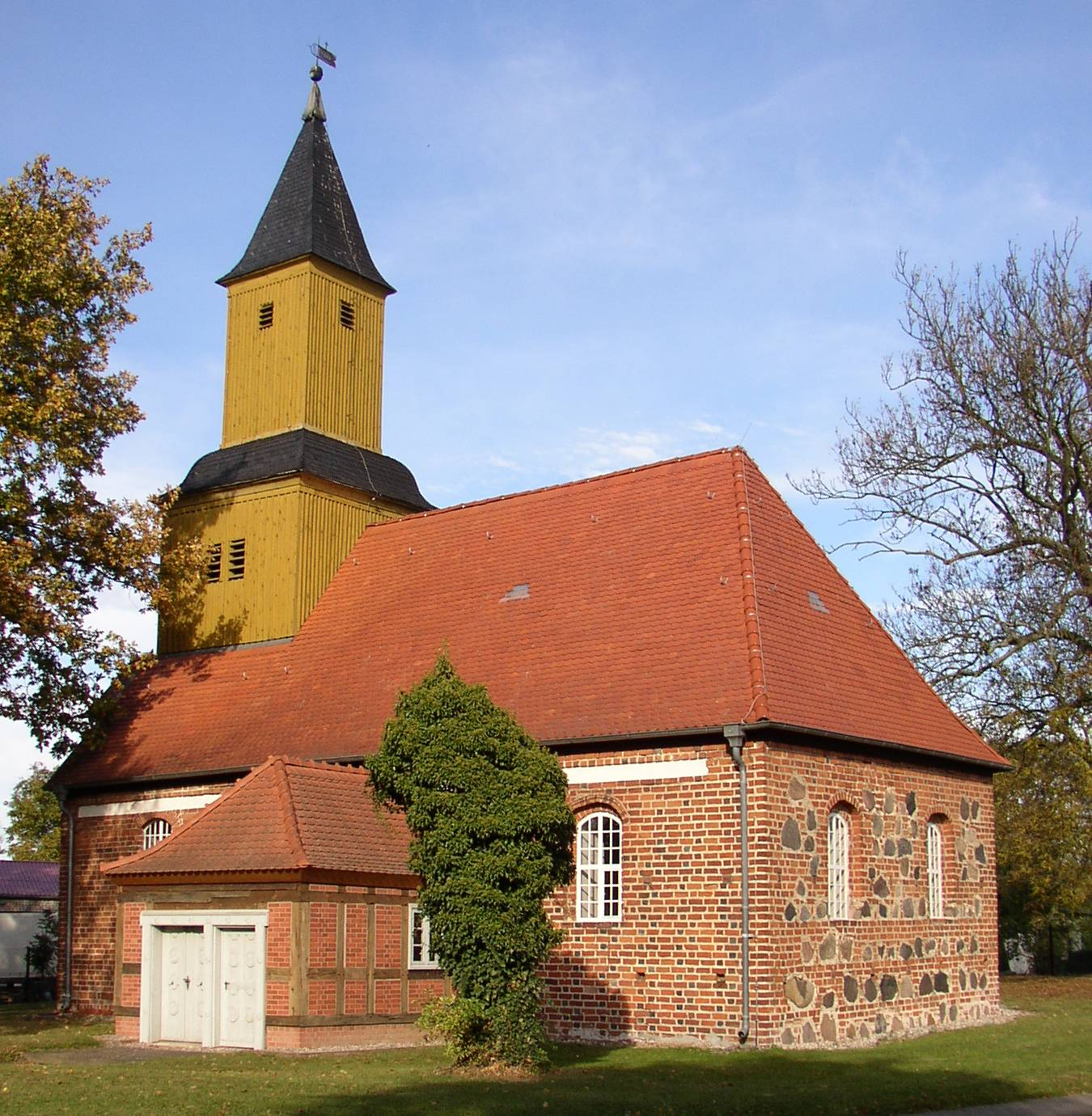 Church in Kremmen-Staffelde in Brandenburg, Germany